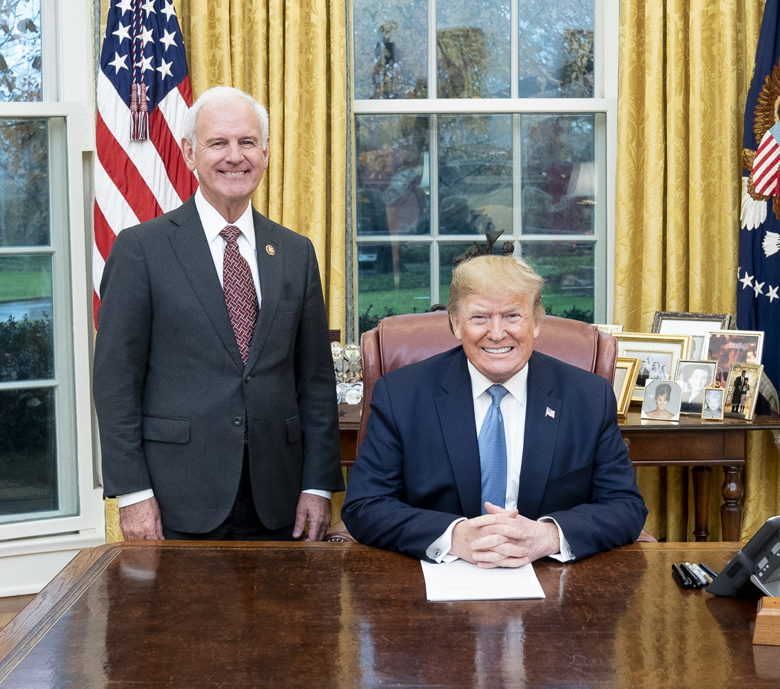 Thank you @realdonaldtrump for hosting me at the @whitehouse yesterday. You're doing great things for our country despite great adversity, and I'm proud to have your back. Thank you for trusting me to lead your education bill in the House! 🇺🇸 (Official White House Photo by Tia Dufour)